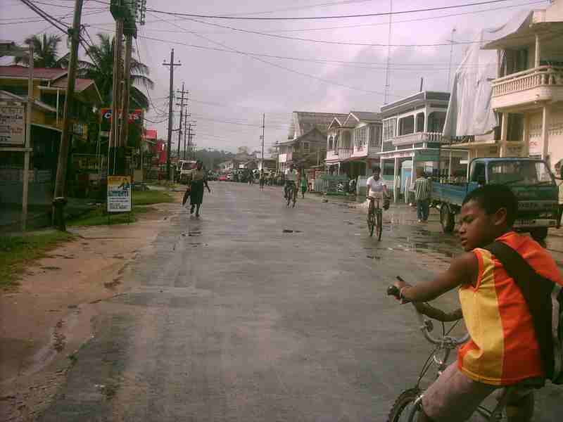 This is a snap shot of the first avenue in Bartica during the day; Bartica is not that lively during the day.